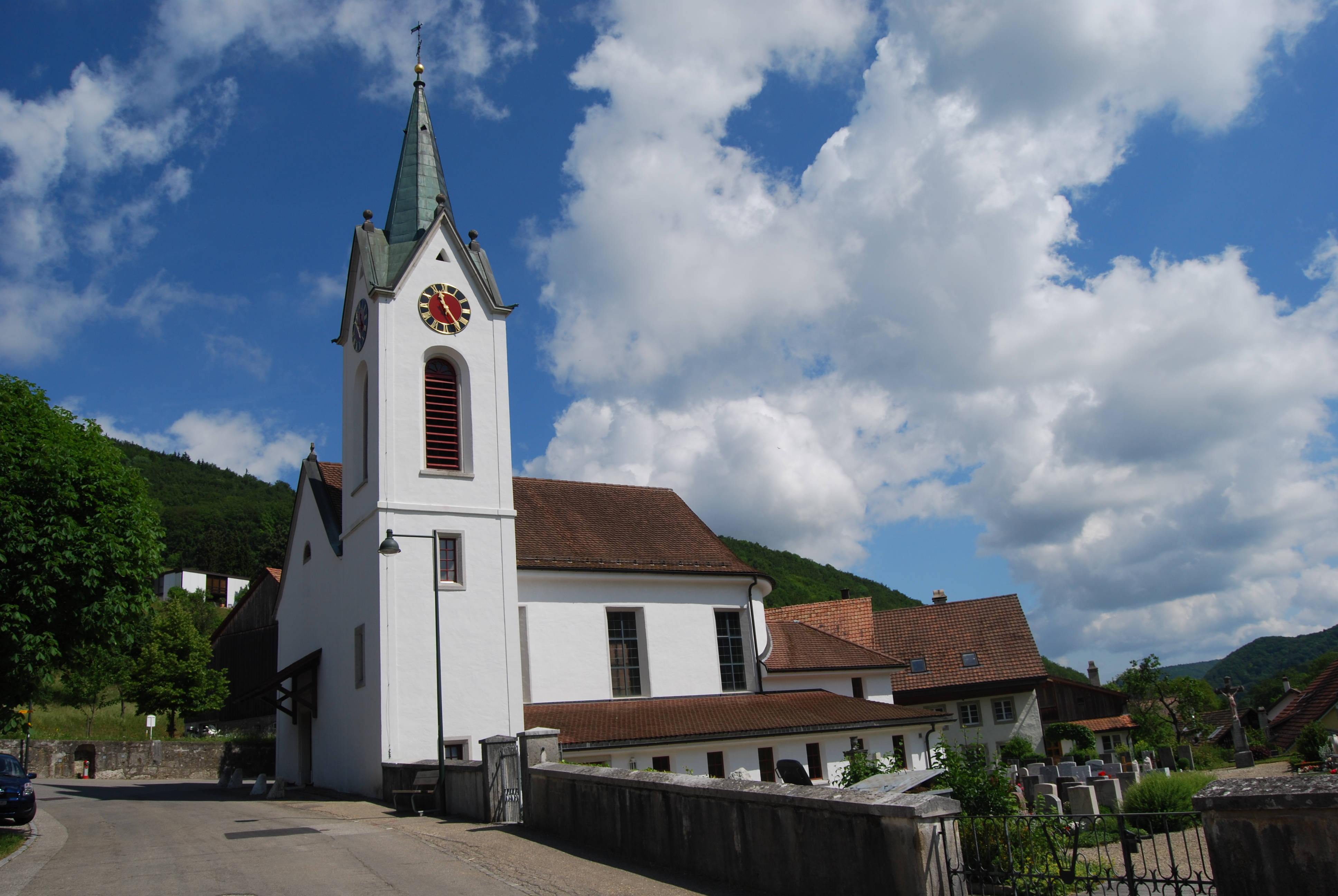 Church Saint Joseph at Wisen, canton of Solothurn, Switzerland